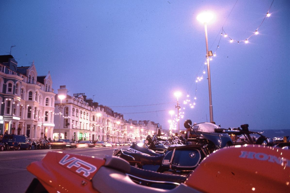 Douglas during the Tourist Trophy